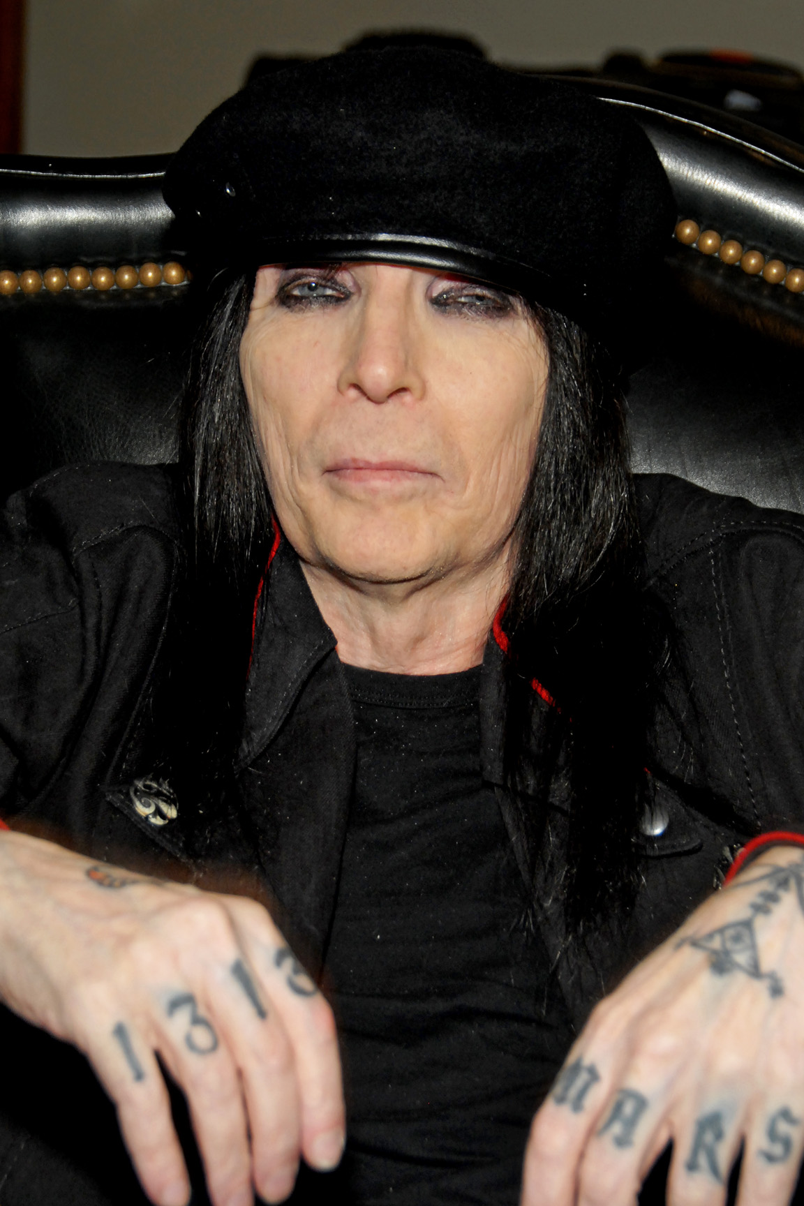 Mick Mars, Hollywood, CA, on March 20, 2012 - Photo by Glenn Francis of